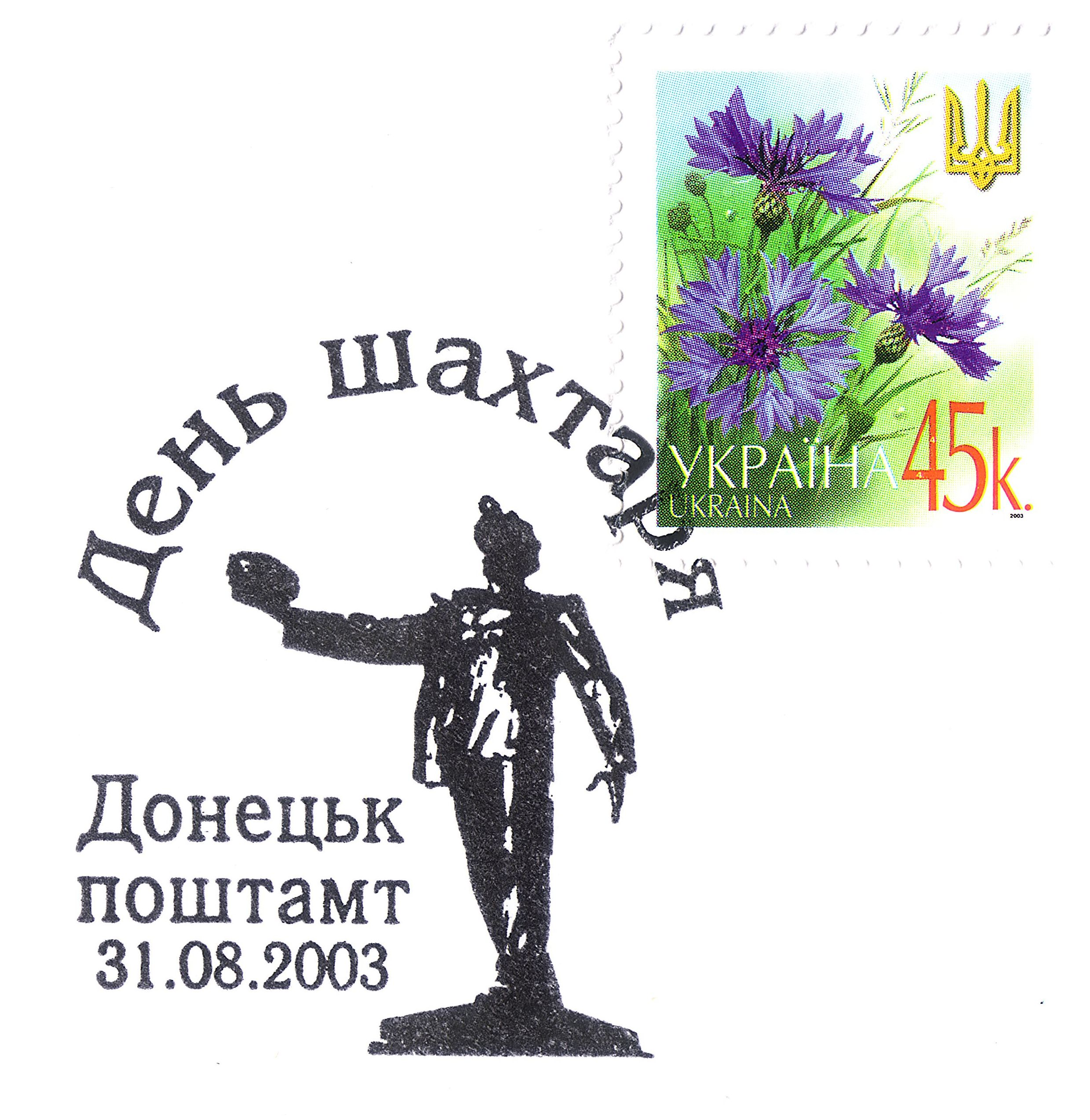 Ukraine.